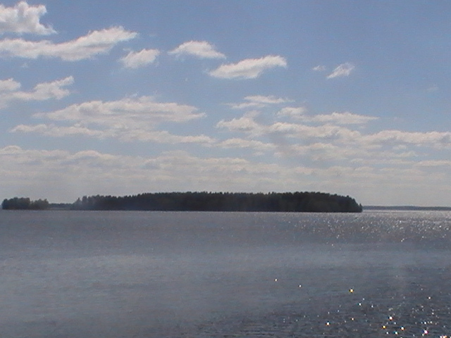 The island of Iissalo, photographed from Katismaa island's platform tower. The island is on Lake Pyhäjärvi at Säkylä, Finland. Iissalo is the largest island on the lake.